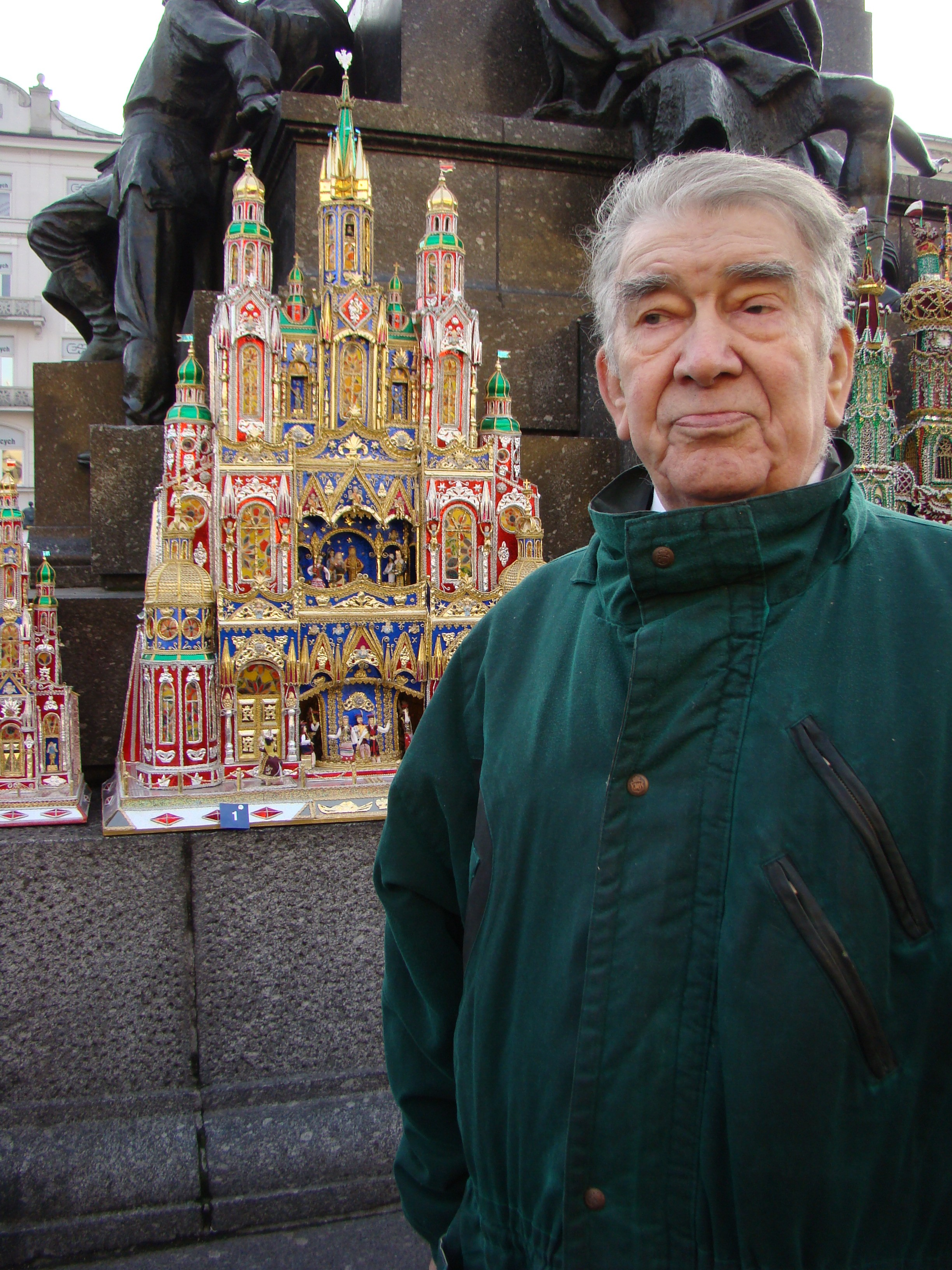 Bronisław Pięcik - krakow cribmaker